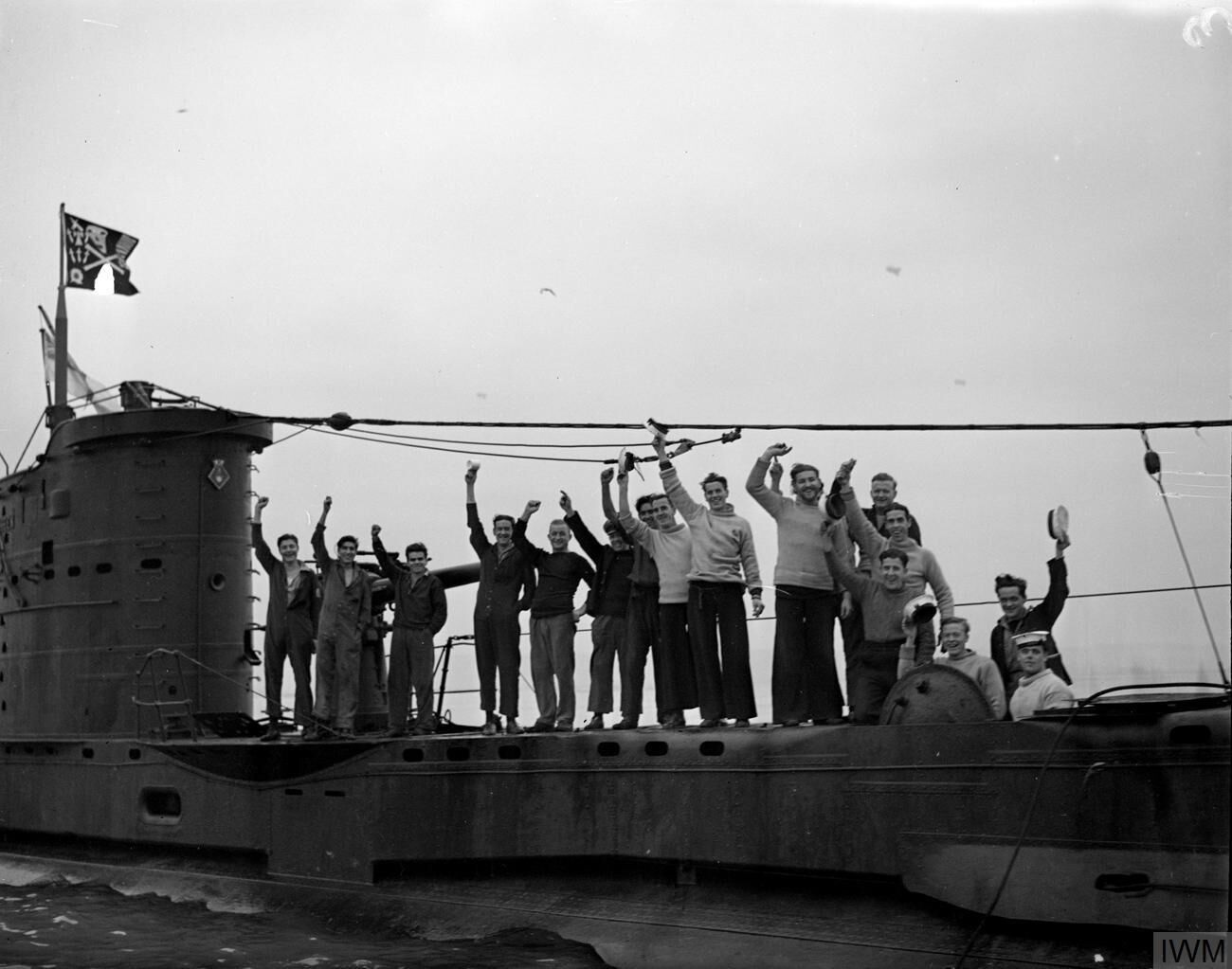 Some of the crew on the deck of the UNSEEN cheering on arrival home.